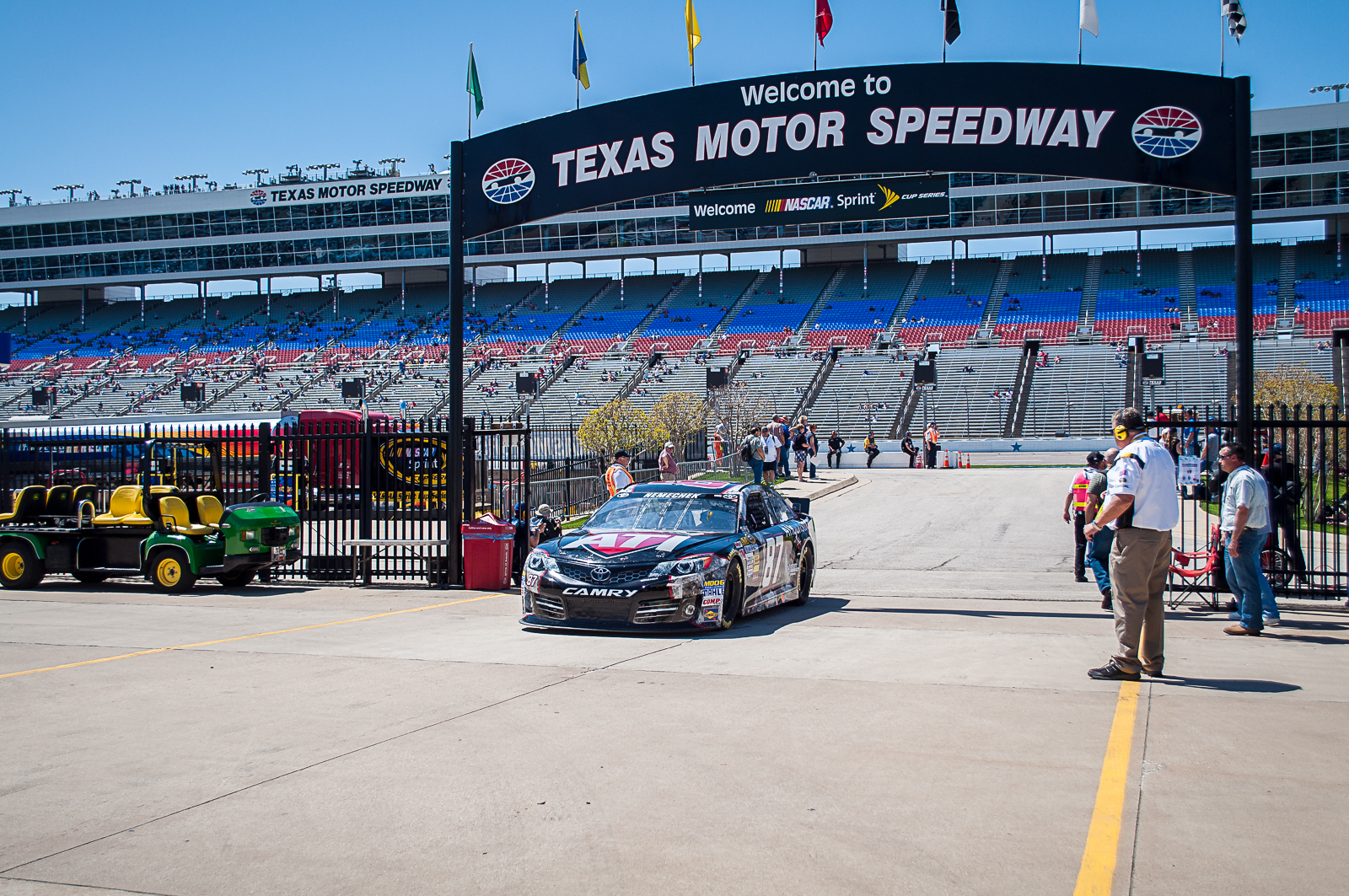 Joe Nemechek pulls the No. 87 Toyota into the garage at Texas Motor Speedway during practice for the 2013 NRA 500.